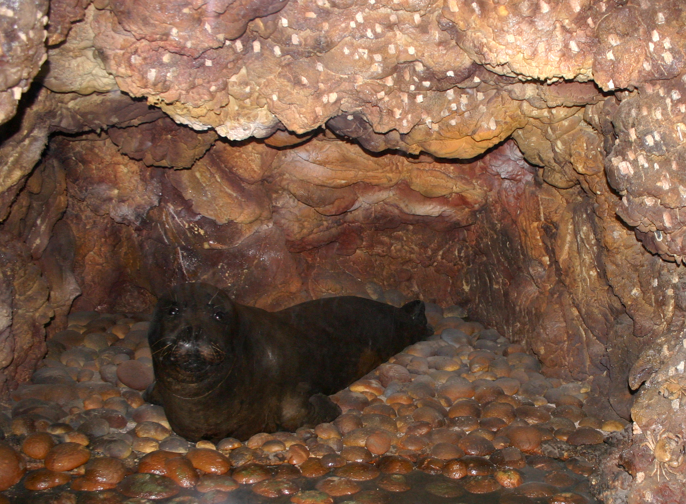 The Natural history museum in Milan, Italy. Diorama with a Monachus monachus (Monk seal). Picture by Giovanni Dall'Orto, April 22 2007.